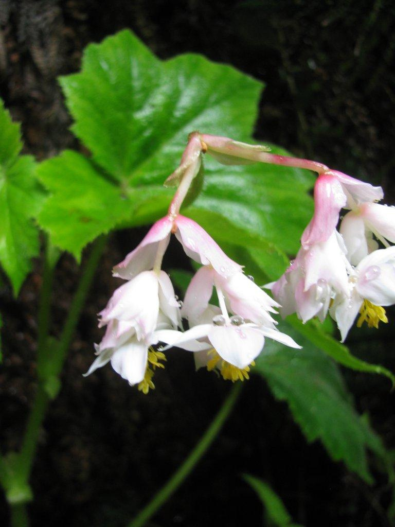 Hillebrandia sandwicensis Ainahou - Waikamoi Preserve, Maui.